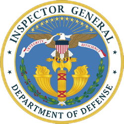 Office of the Inspector General, Seal